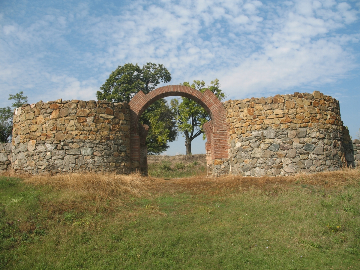 Eastern Gate of Roman castrum Diana on Danube in Karataš,next to HE Đerdap I,Serbia.